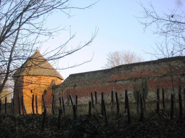 Basing House ruins View of the dovecote and garden wall from Redbridge Lane.